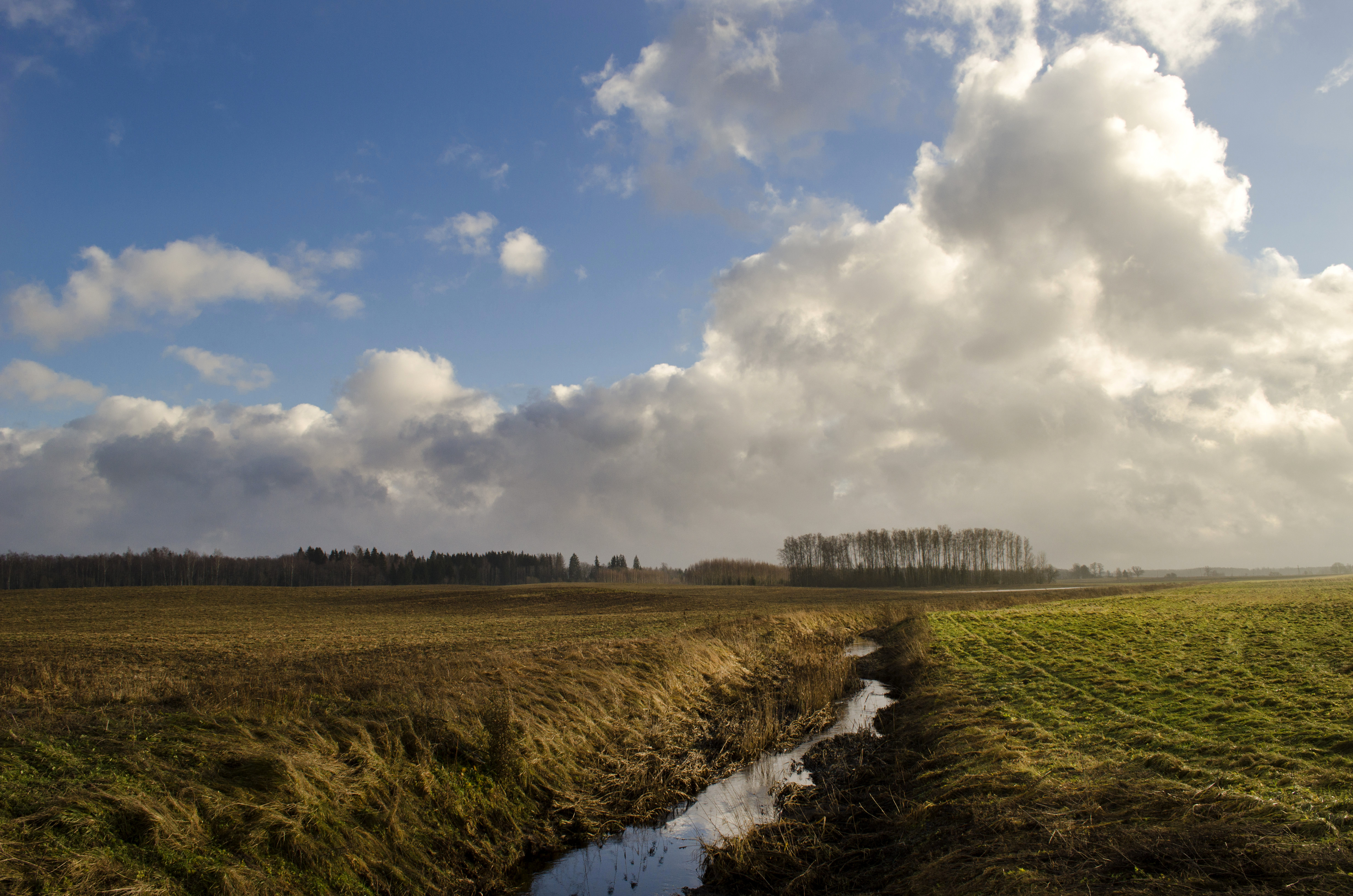 Iesala River near Iesalkājas